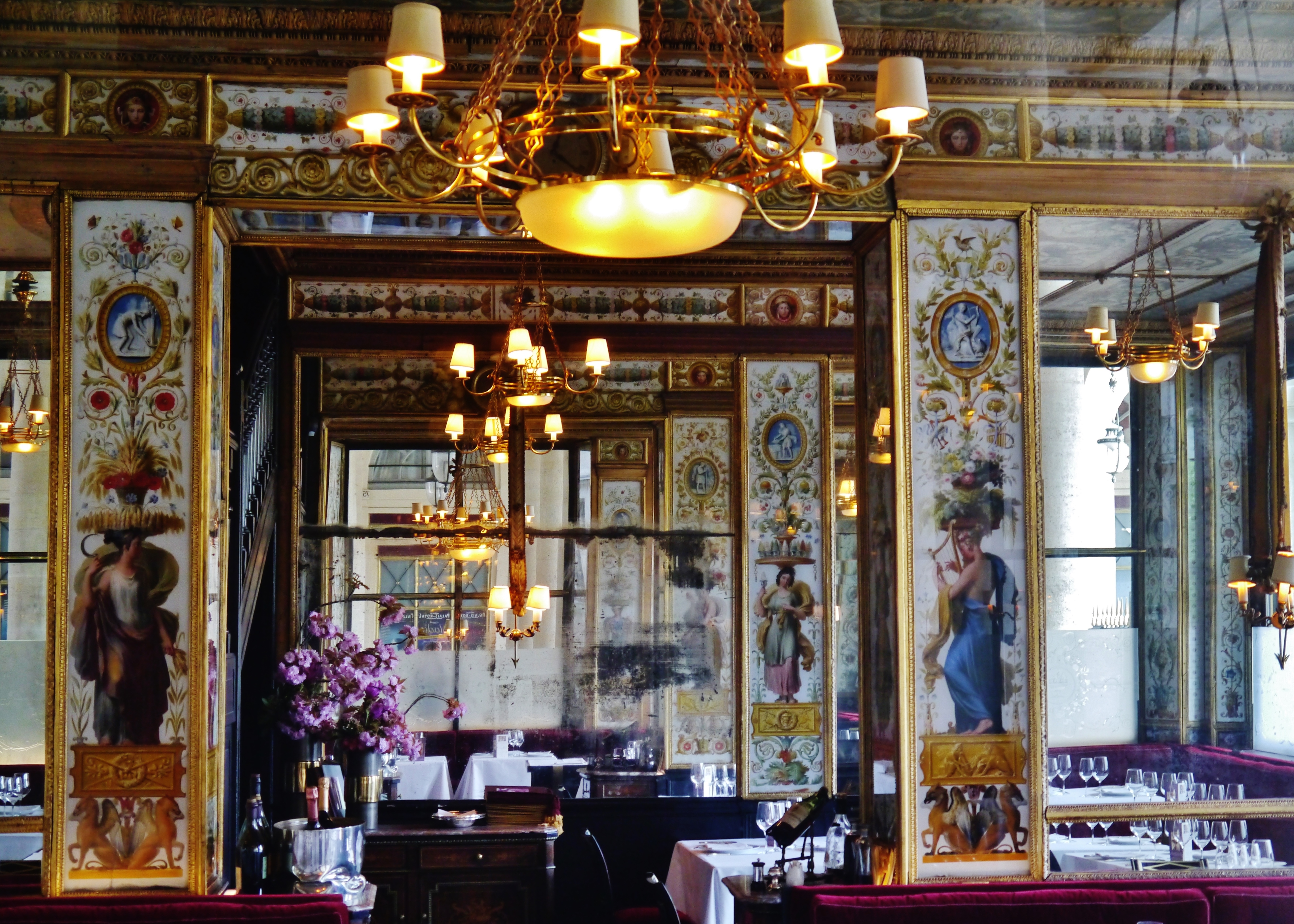 Interior of Grand Véfour Restaurant as Part of the Palais Royal, Paris, Region of Île-de-France, France